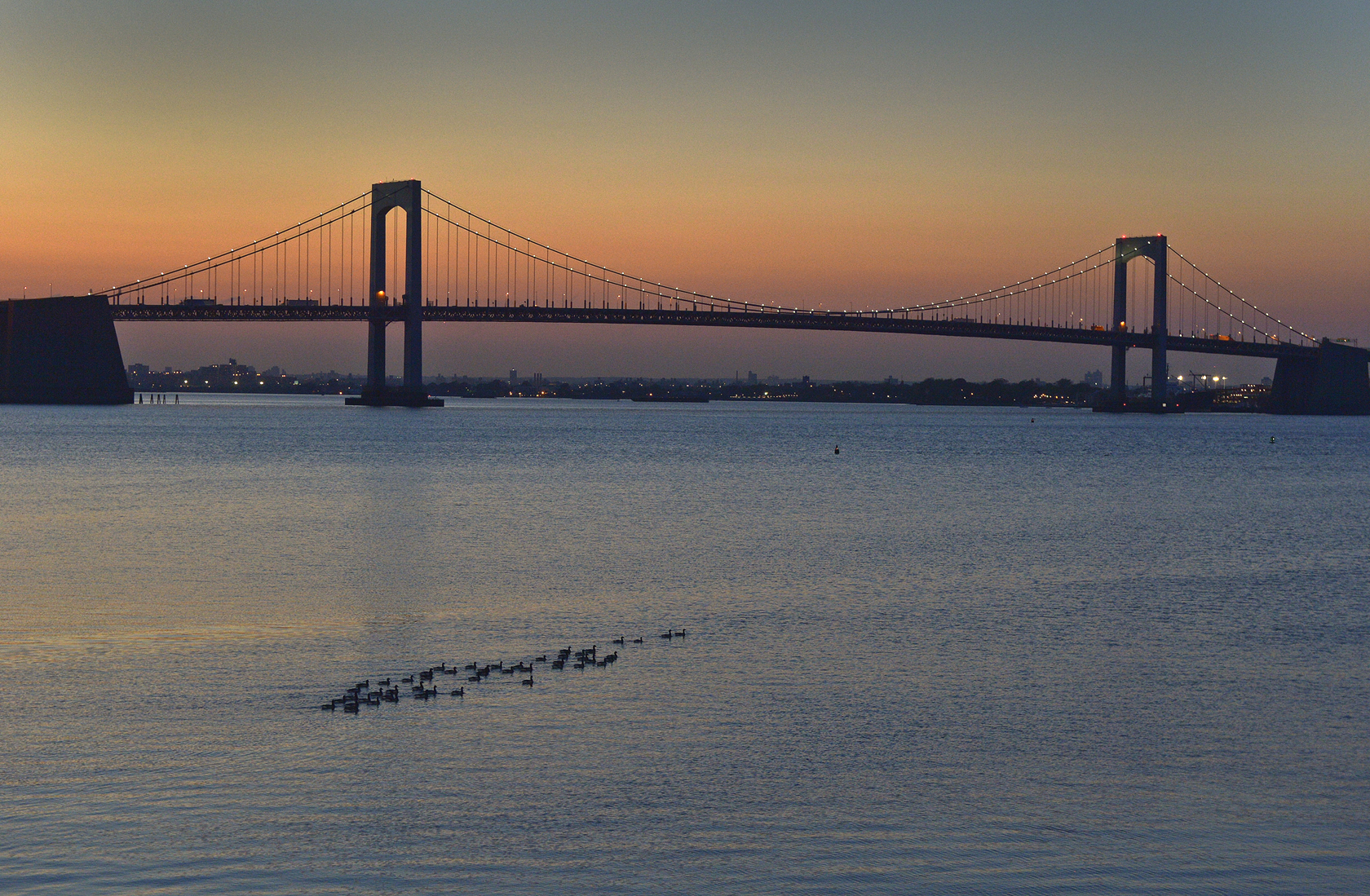 Just in time for Earth Day 2012, MTA Bridges and Tunnels crews finished replacing 142 old mercury vapor lights with new high-efficiency LED lights at the Throgs Neck Bridge. Photo: Metropolitan Transportation Authority / Patrick Cashin.